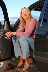 Kristen Iversen in a Jeep in Colorado own work